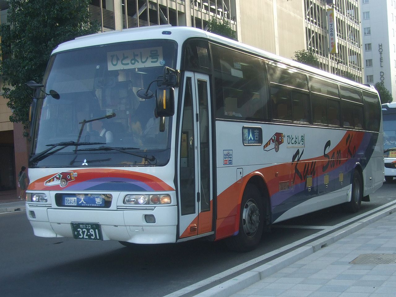 Company:Sanko Bus Use:transit bus (highway bus) Belongs to:Hitoyoshi depot Car license:KU 22 KA 3291 Chassis manufacturer:Mitsubishi Motors Coachbuilder:Mitsubishi Fuso Bus Manufacturing Location:in Chuo Ward, Kumamoto City, Kumamoto, Japan.